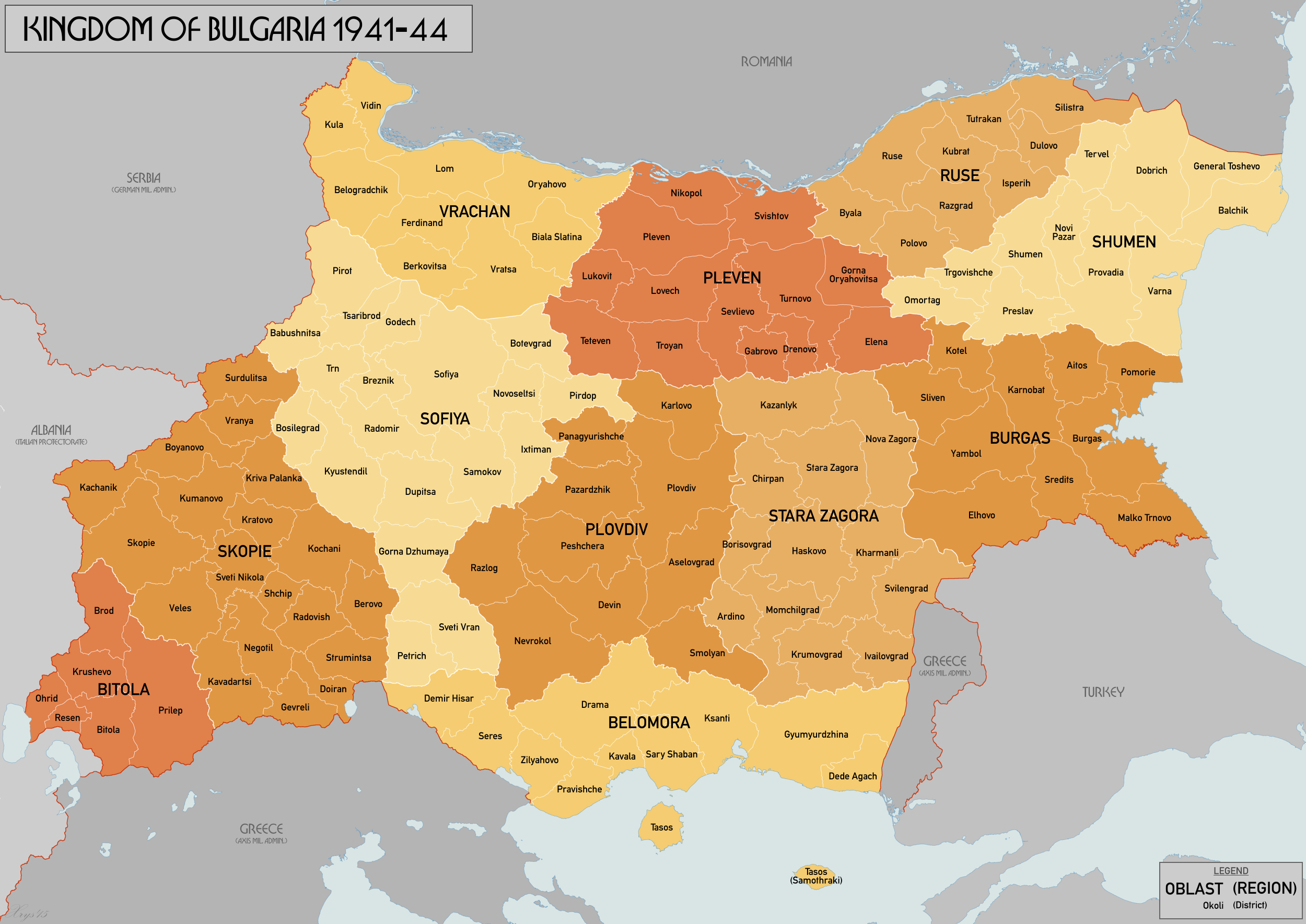 Administrative map of the Kingdom of Bulgaria (1941-44) showing Oblasts and Okolii. Source data: Deutsche Heereskarten (Bulgarien 100k, Karte von Mitteleuropa 300k, General Karte 200k). Karta na Bulgaria (1927). Sournce map data from Mapywig and User:Пакко.